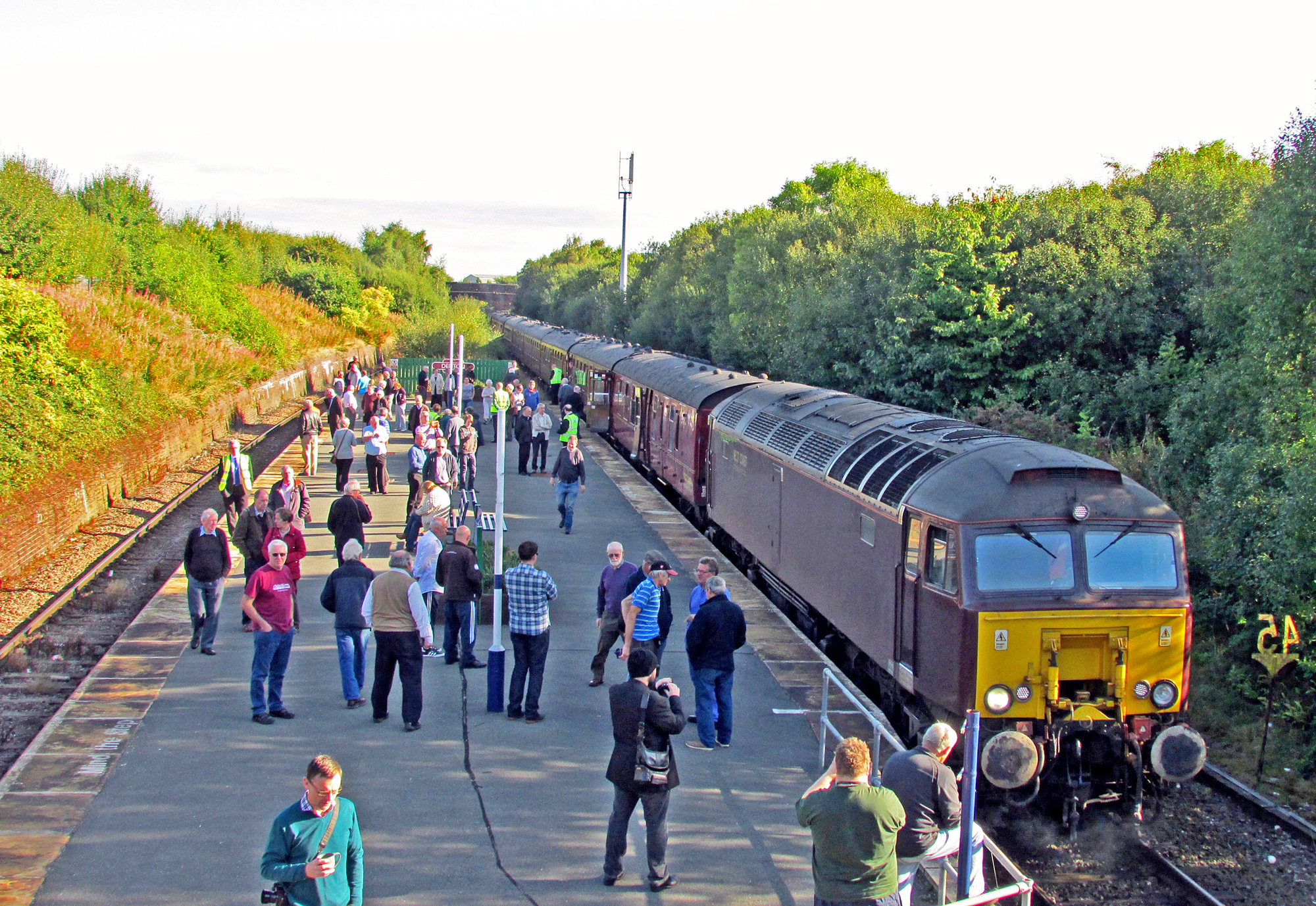 Denton railway station on 17 September 2016 with West Coast Class 57 57313 calling with an excursion from Preston via Manchester Victoria to Buxton.